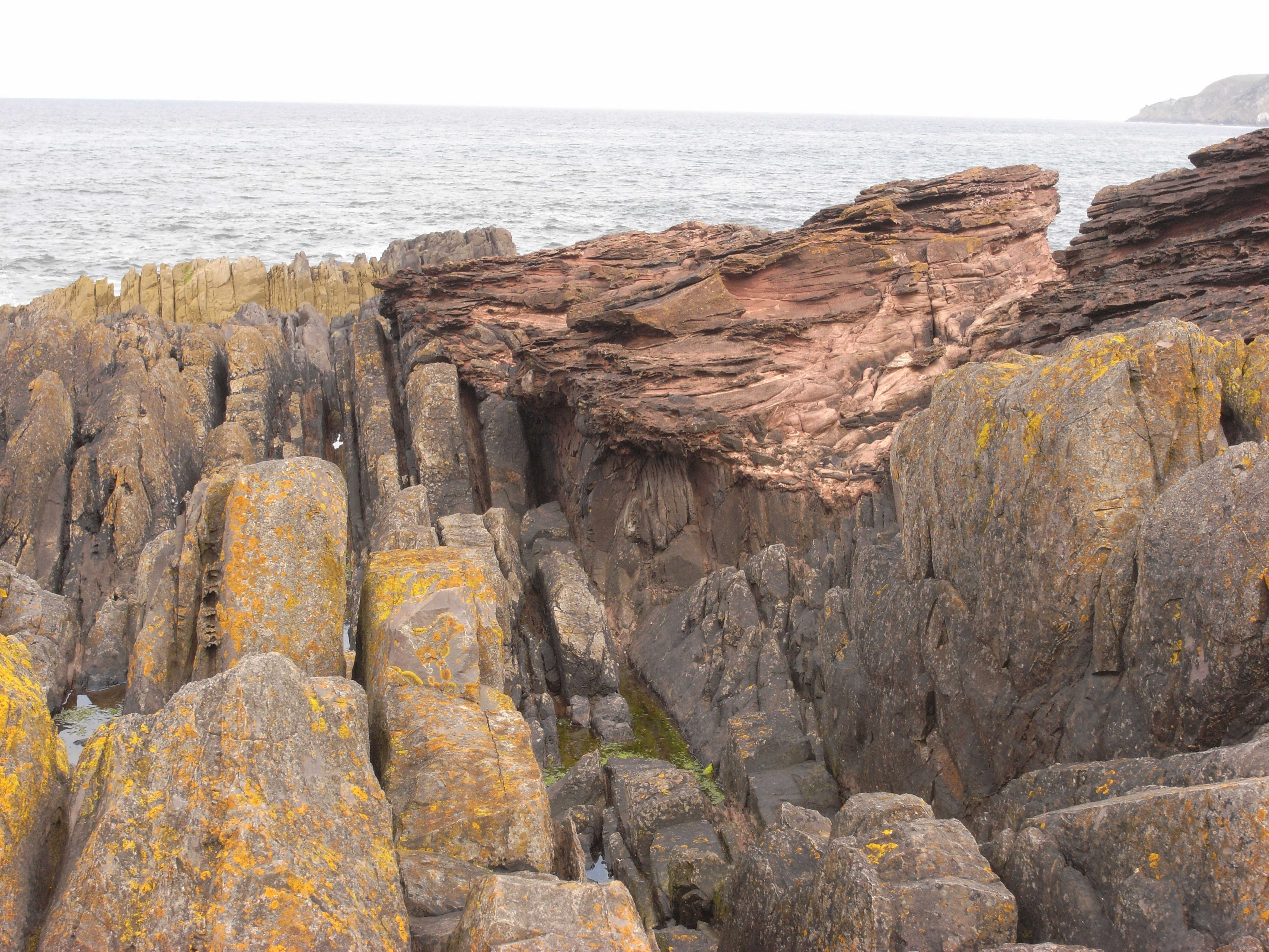 Hutton's Unconformity at Siccar Point, Scotland